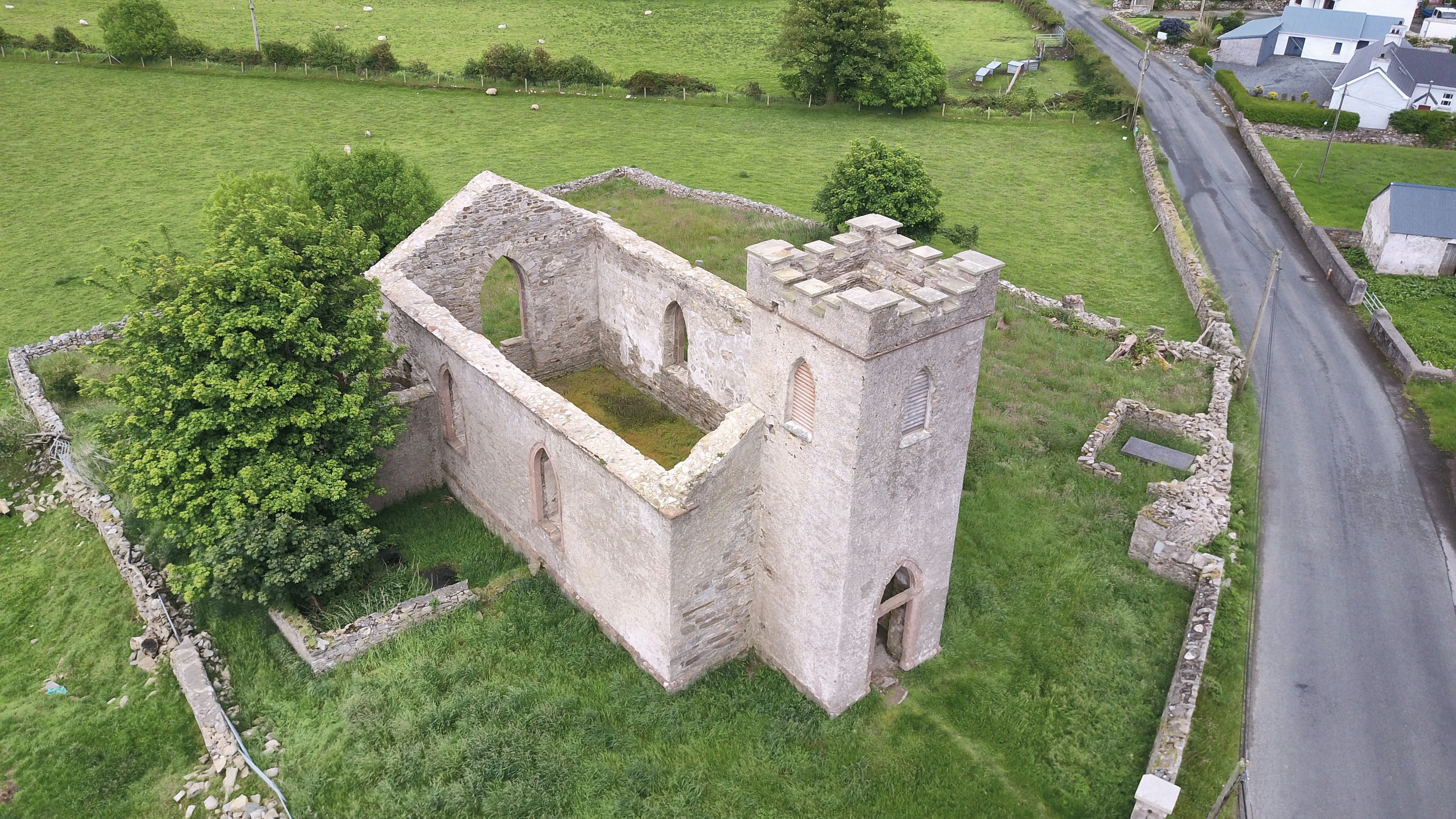 Straid Church, Clonmany (photo by Martin McLaughlin)